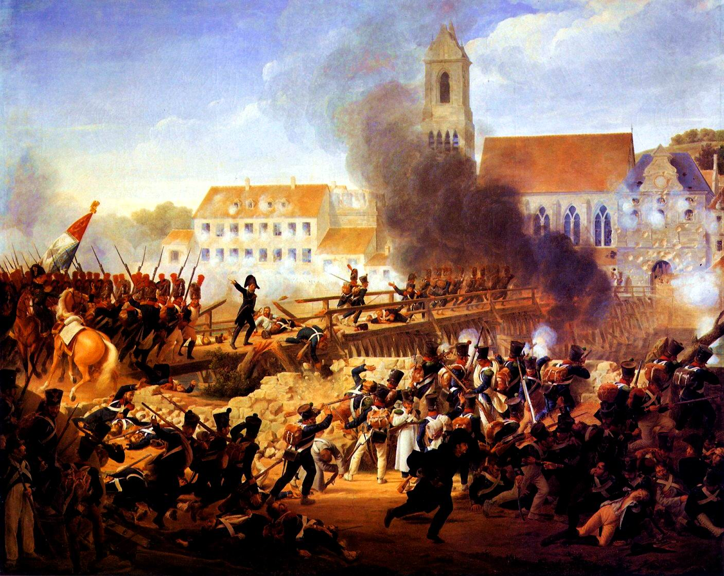 Battle of Landshut, 21st April 1809. Here General Georges Mouton, a senior aide-de-camp of the Emperor Napoleon, takes command of the grenadier companies of the 17th line regiment and leads them across the bridge, which represents the French breakthrough during this battle.